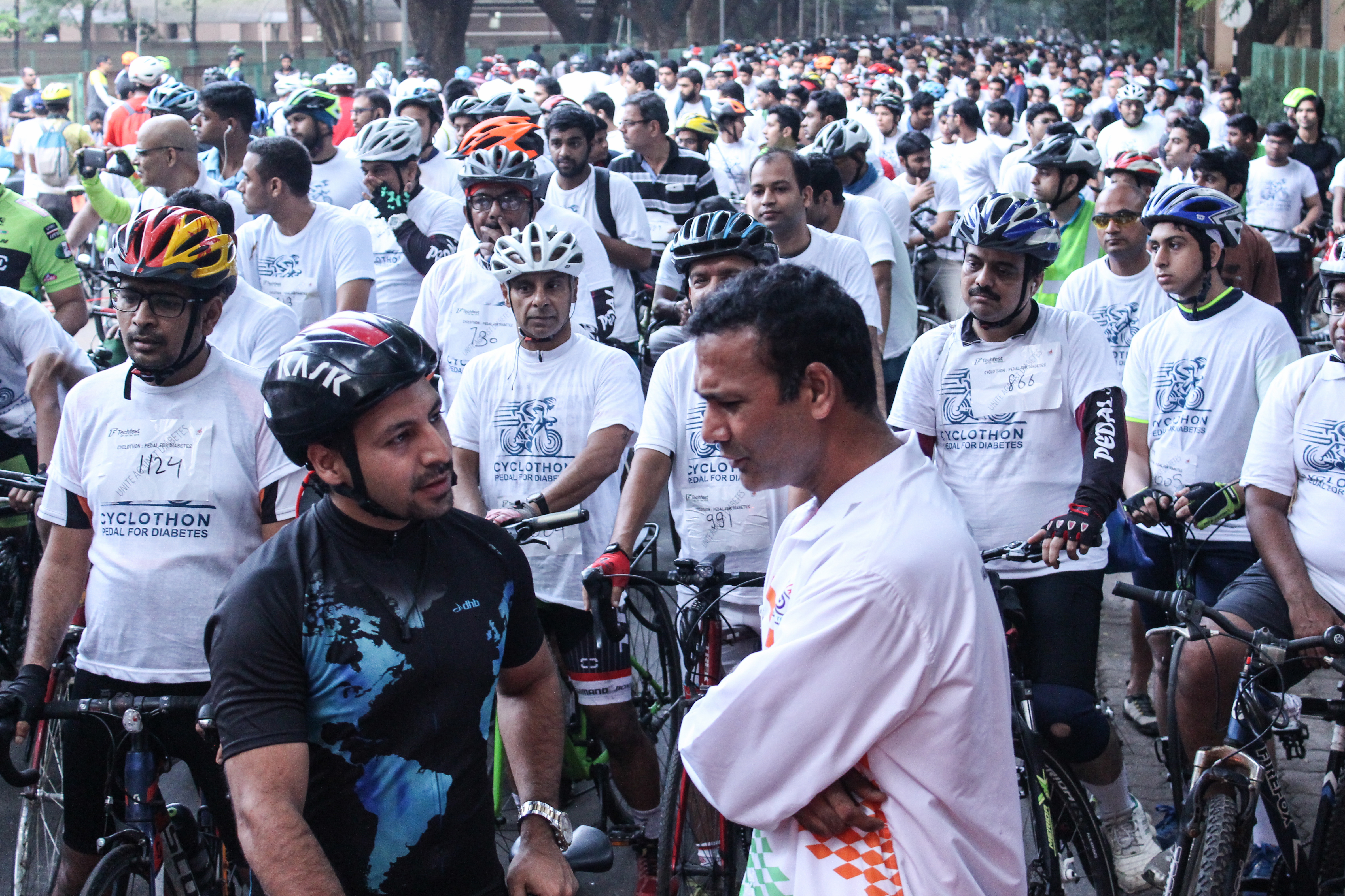 Pedal for Diabetes